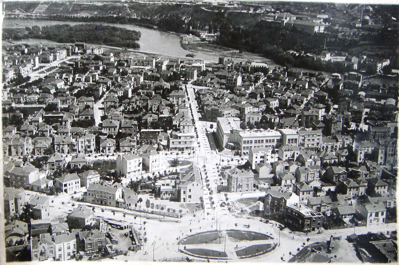 Historical images of Skopje: Panorama of Skopje This media file is produced by Wikipedian in Residence in Category:Wikipedian in Residence at DARM in 2016.